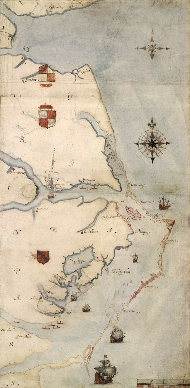 1585 map of the east coast of North America from the Chesapeake Bay to Cape Lookout by John White.